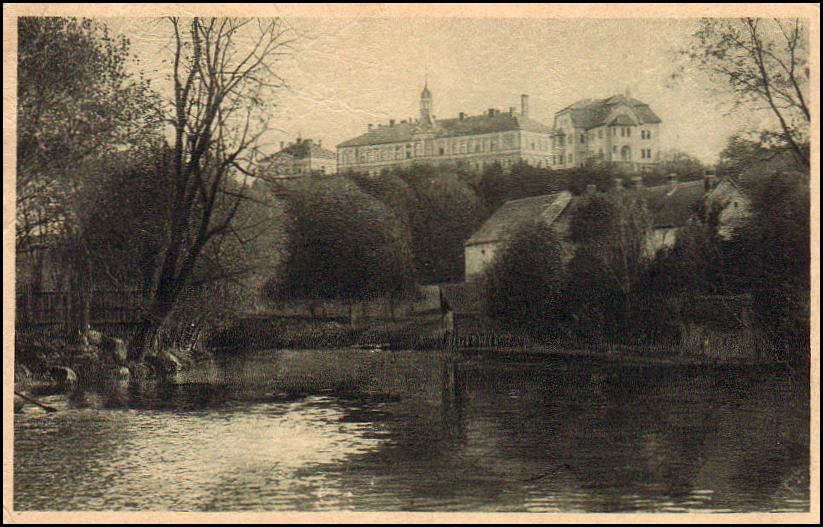 View of Hospital in Třebíč in 1920 in Třebíč, Třebíč District.